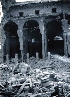 Santissima Annunziata del Vastato (Genoa) 1943 second world war destructions